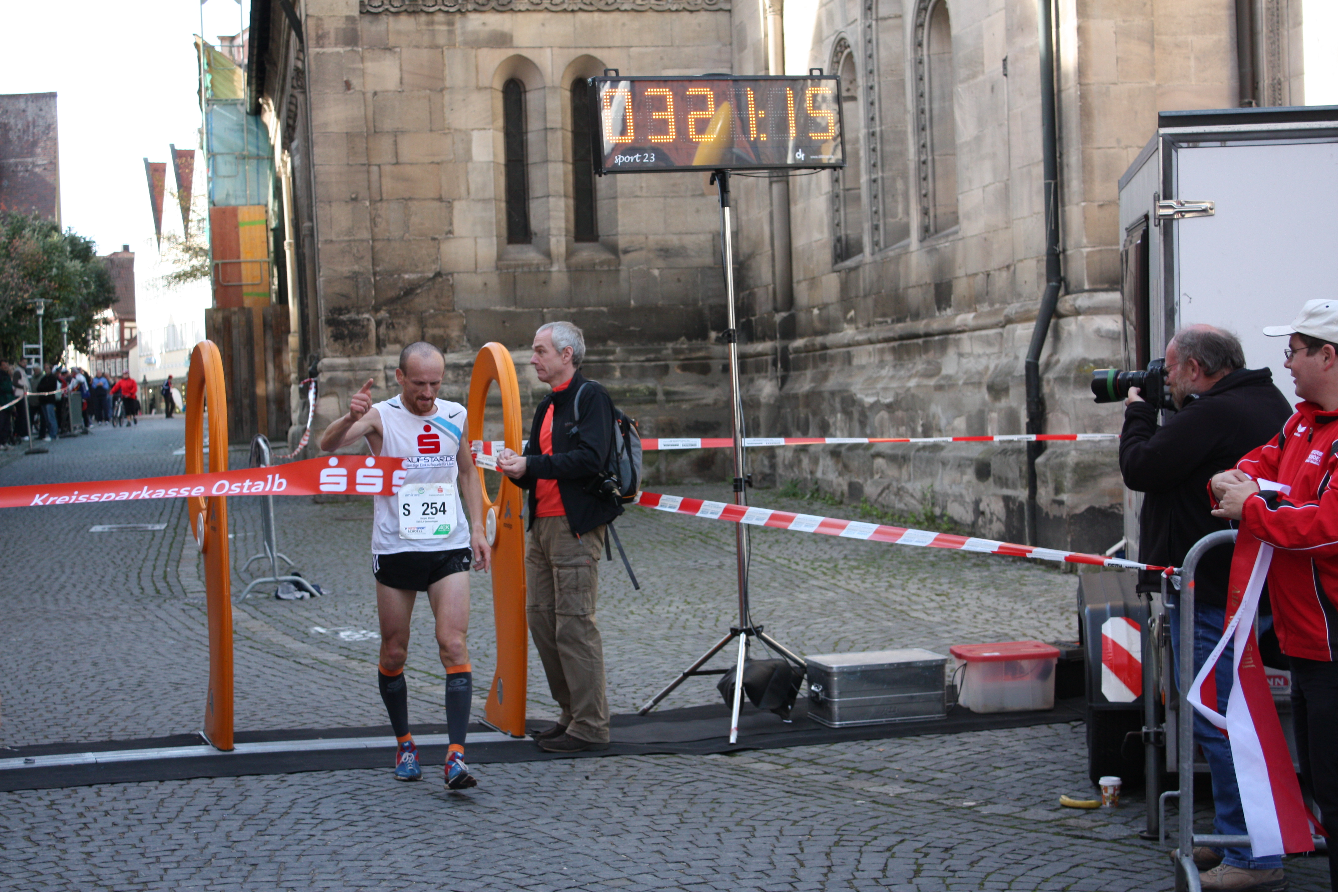 19. Albmarathon 2009 Schwäbisch Gmünd: Jürgen Wieser 10th victory of the 50 km Race